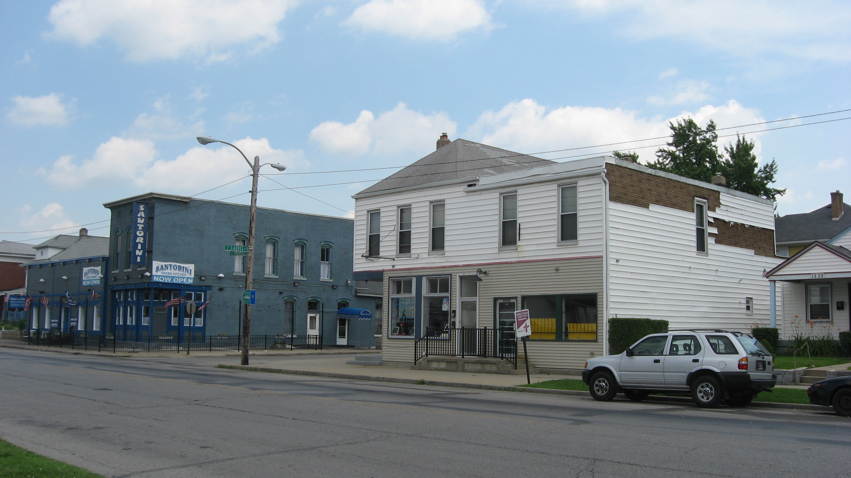 Buildings on the southeastern (left) and southwestern (right) corners of the intersection of Laurel and Prospect Streets in Indianapolis, Indiana, United States. These buildings compose the Laurel and Prospect District, a historic district that is listed on the National Register of Historic Places.